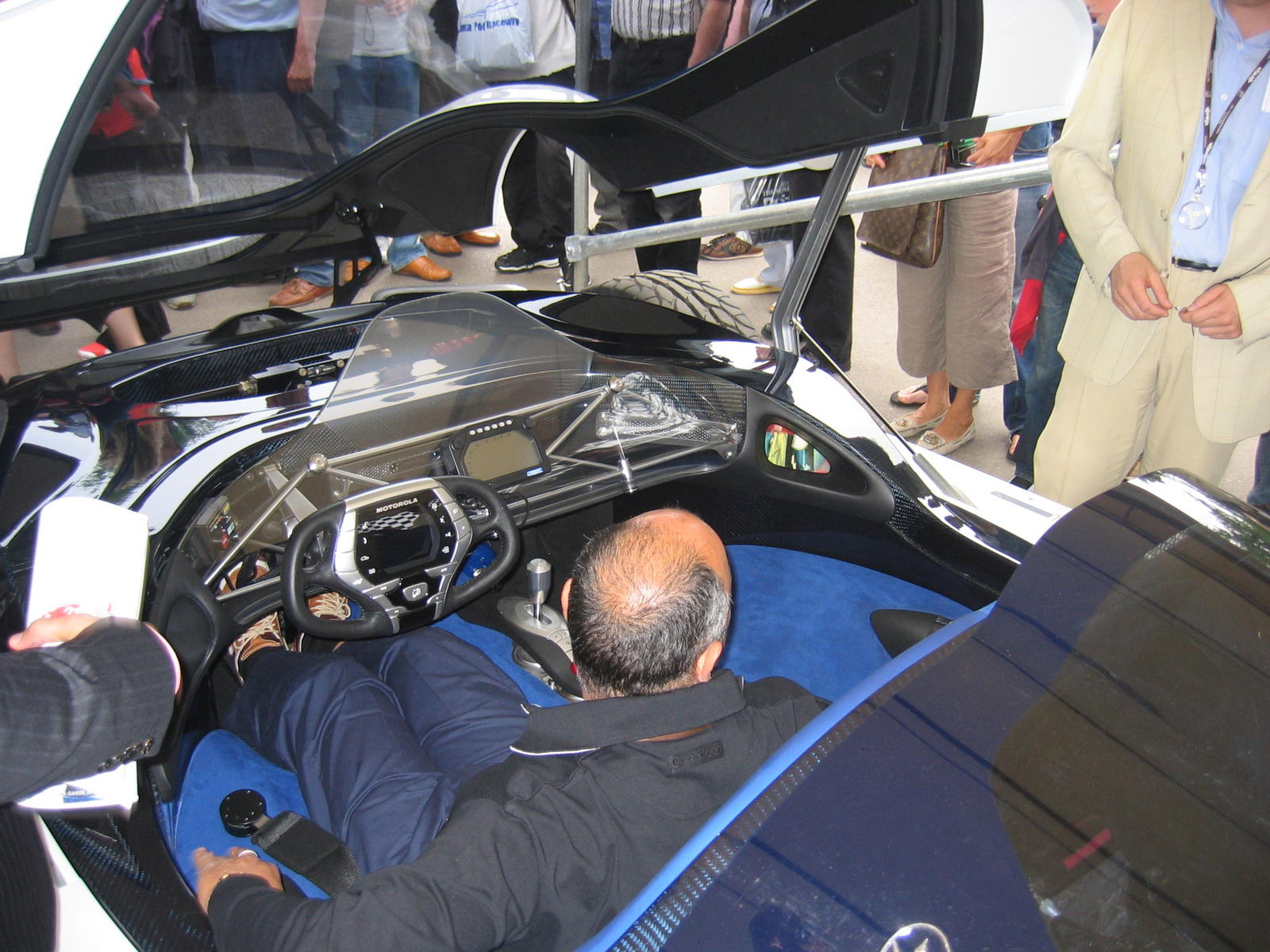 Maserati Birdcage 75th Concept car.